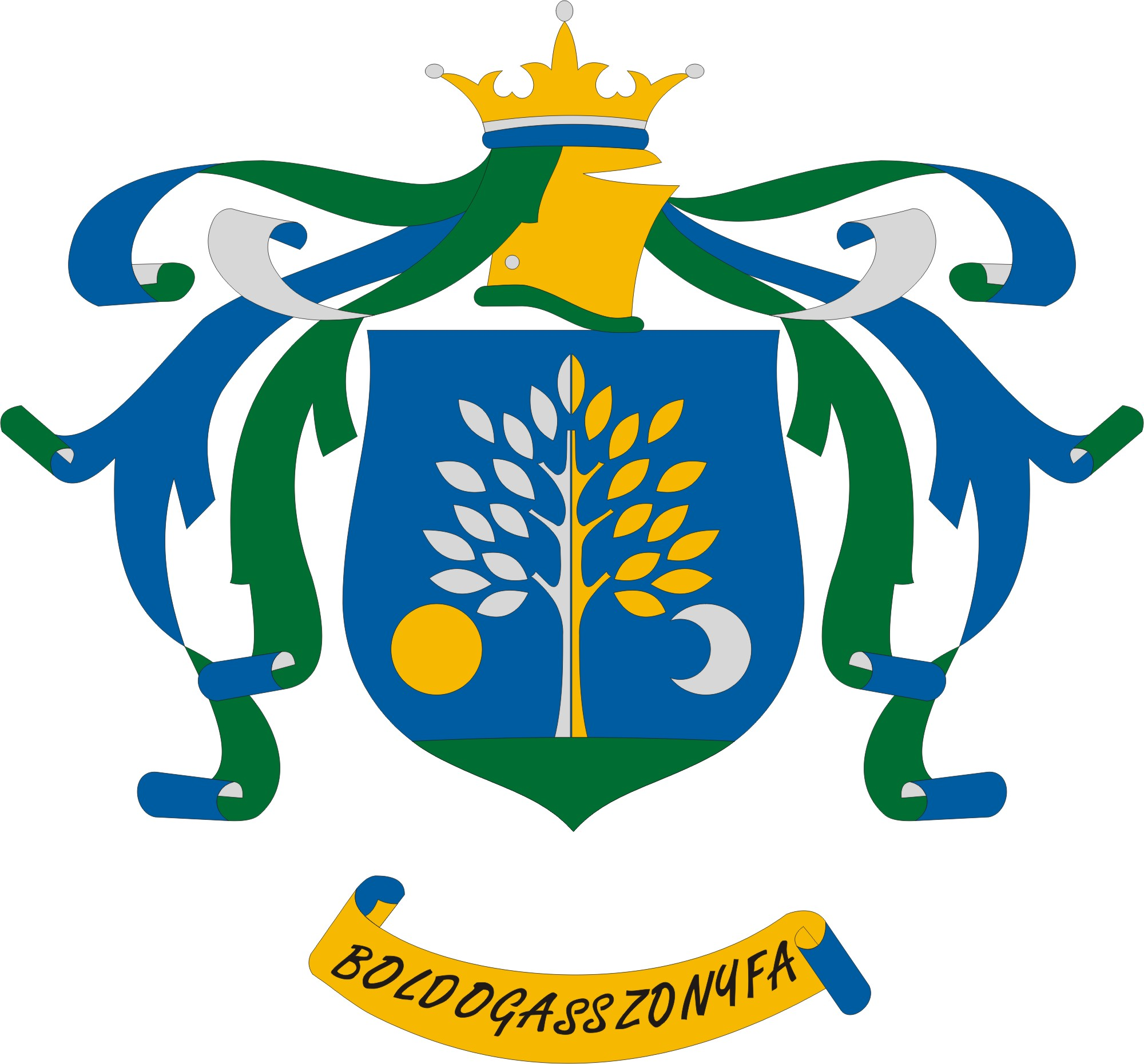 Coat of arms of Boldogasszonyfa, Hungary